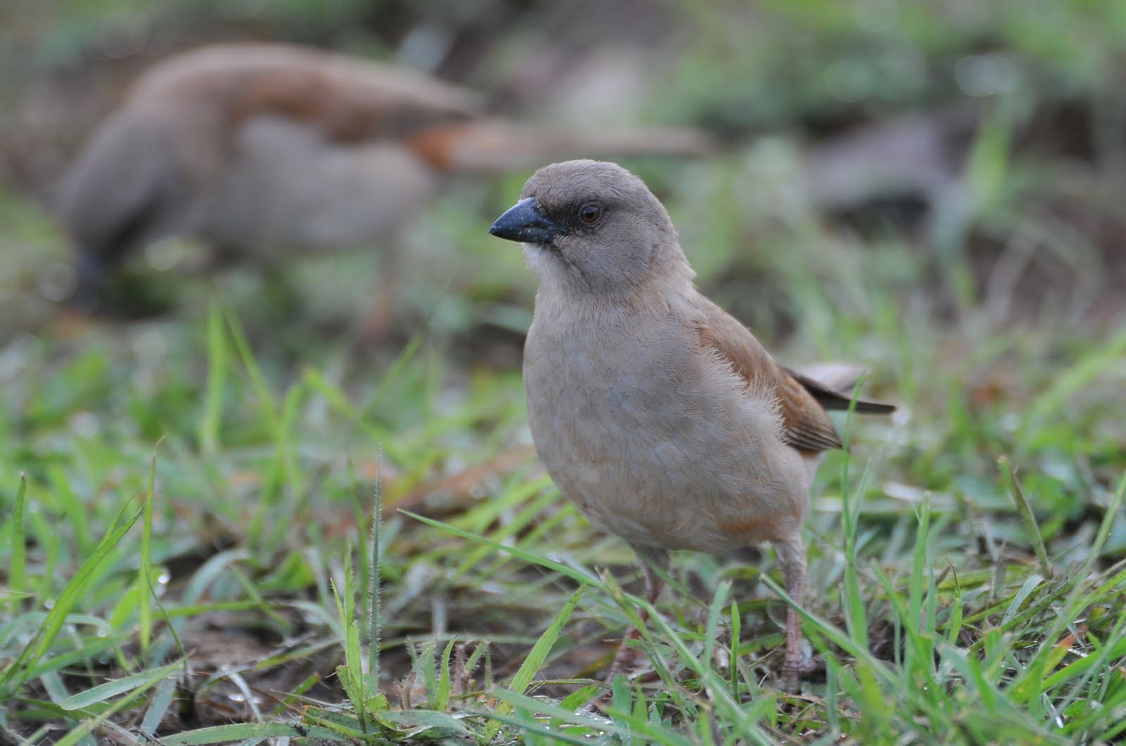 A Grey-headed Sparrow in Rwanda